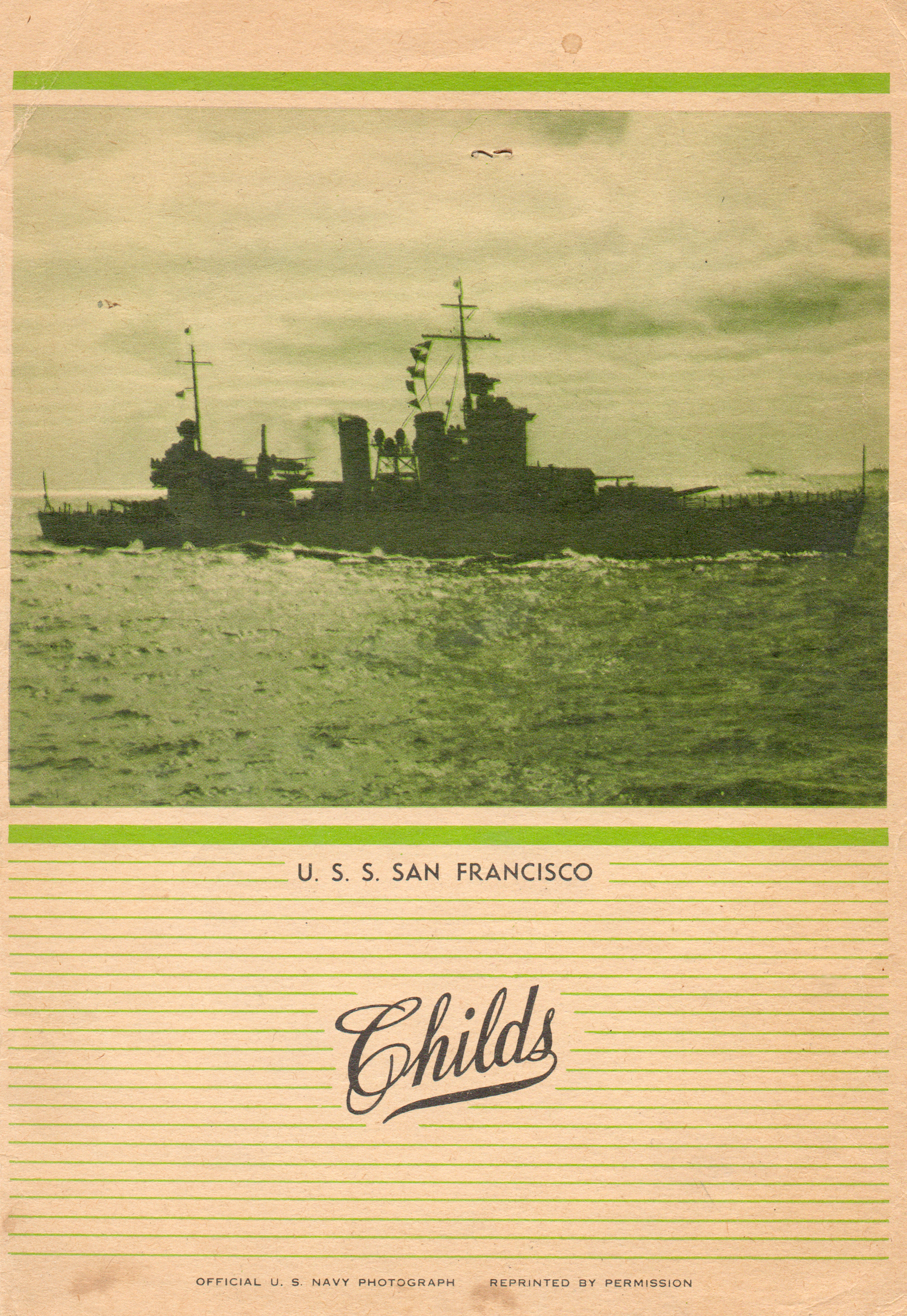 Childs Restaurant menu cover c1943 illustrated with a US Navy photo of the USS San Francisco (CA38), a New Orleans class heavy cruiser (1934-1946)